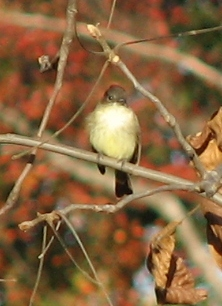 Eastern Phoebe Sayornis phoebe